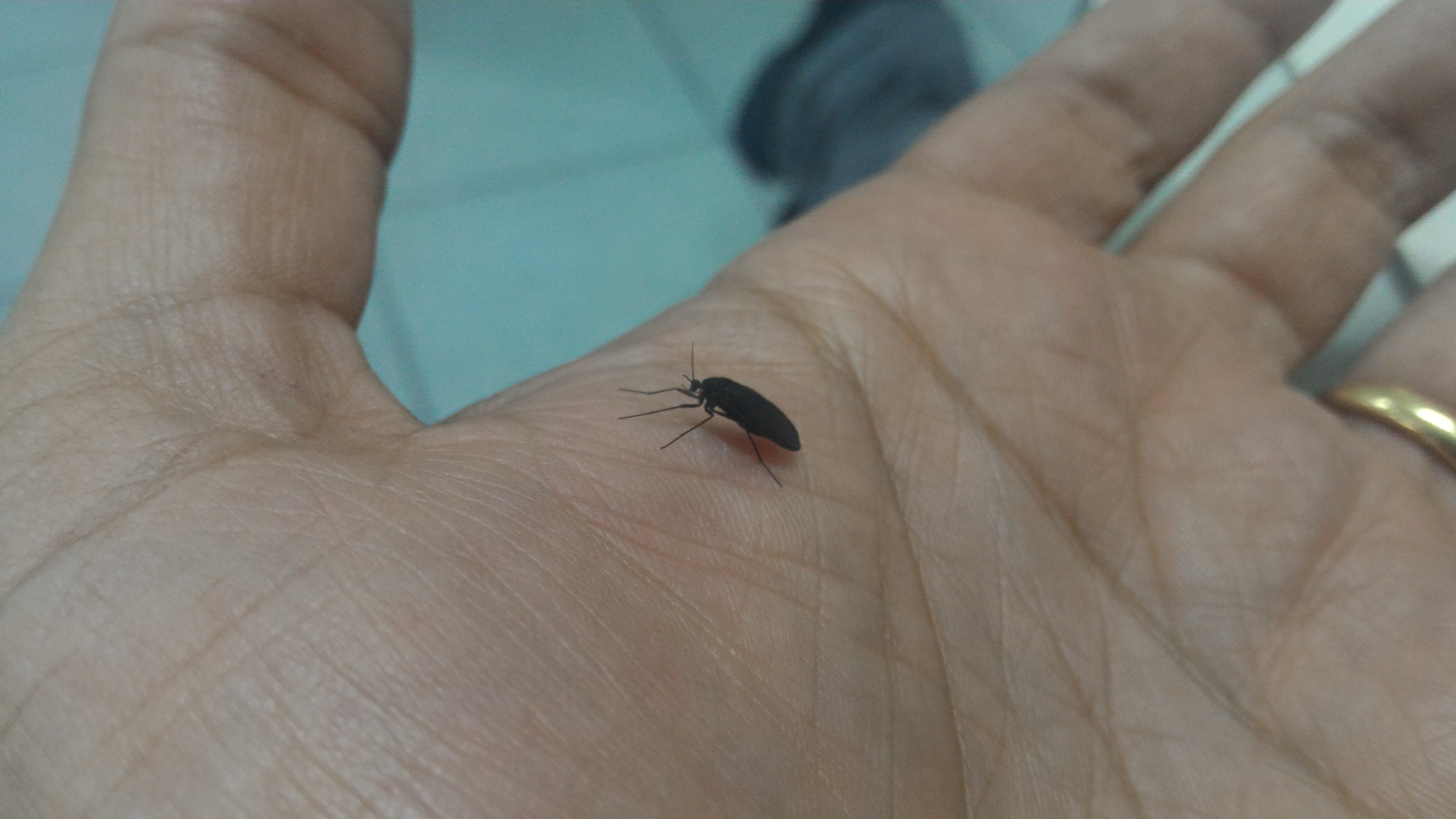 Rhynchosciara americana